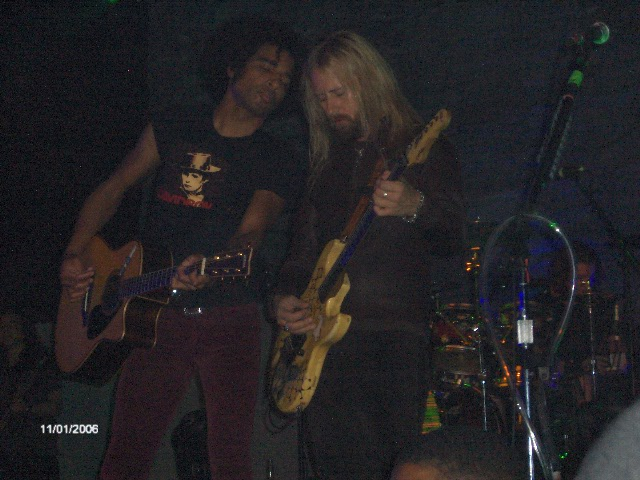 William DuVall & Jerry Cantrell live at New York, 2006